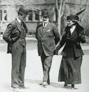 George Dunton Widener, Jr., Horace Trumbauer, and Eleanor Elkins Widener in Harvard Yard, with Sever Hall in background